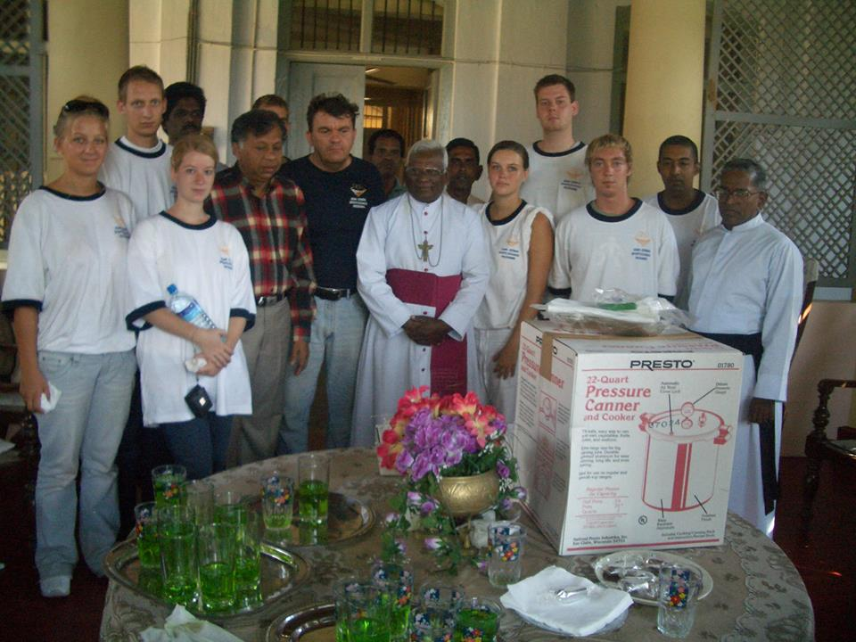 Most Rev. Dr. Thomas Savundaranayagam, Bishop of Jaffna with German tsunami relief mission team members including Dietmar Doering, Sebastian Schmid, Kerstin Horaczek, Friederike Wagner-Vogel, Yvonne Seiler, Georg Schmidt-Colinet, Johannes Horstmann, Martin A. Bosshart and Sri Lankan Coordinators Dr. Jayalath Jayawardena and Rajkumar Kanagasingam in January, 2005. (